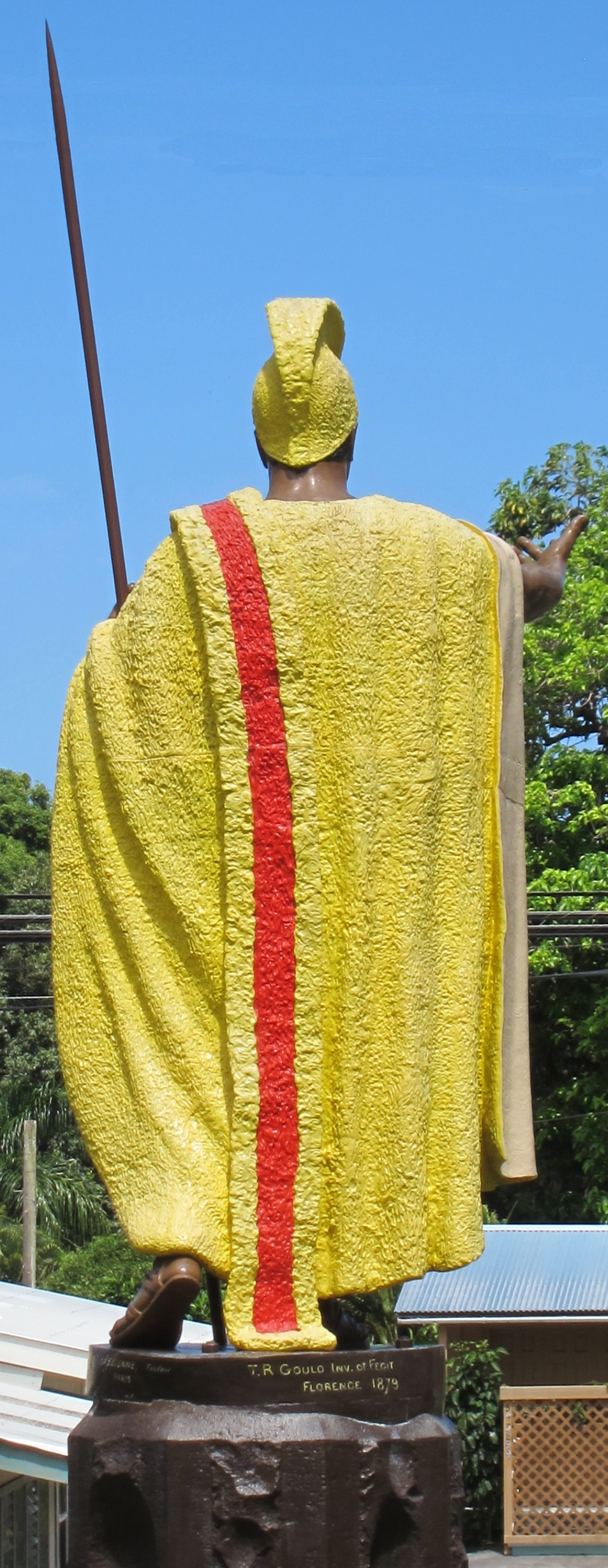 Kamehameha statue at Kohala (rear view)